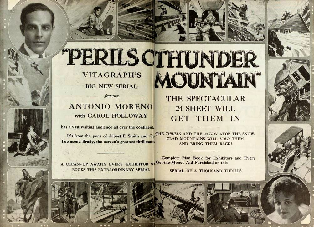 Ad for the American film serial Perils of Thunder Mountain (1919) with Antonio Moreno and Carol Holloway, on pages 754 and 755 of the May 10, 1919 Moving Picture World.